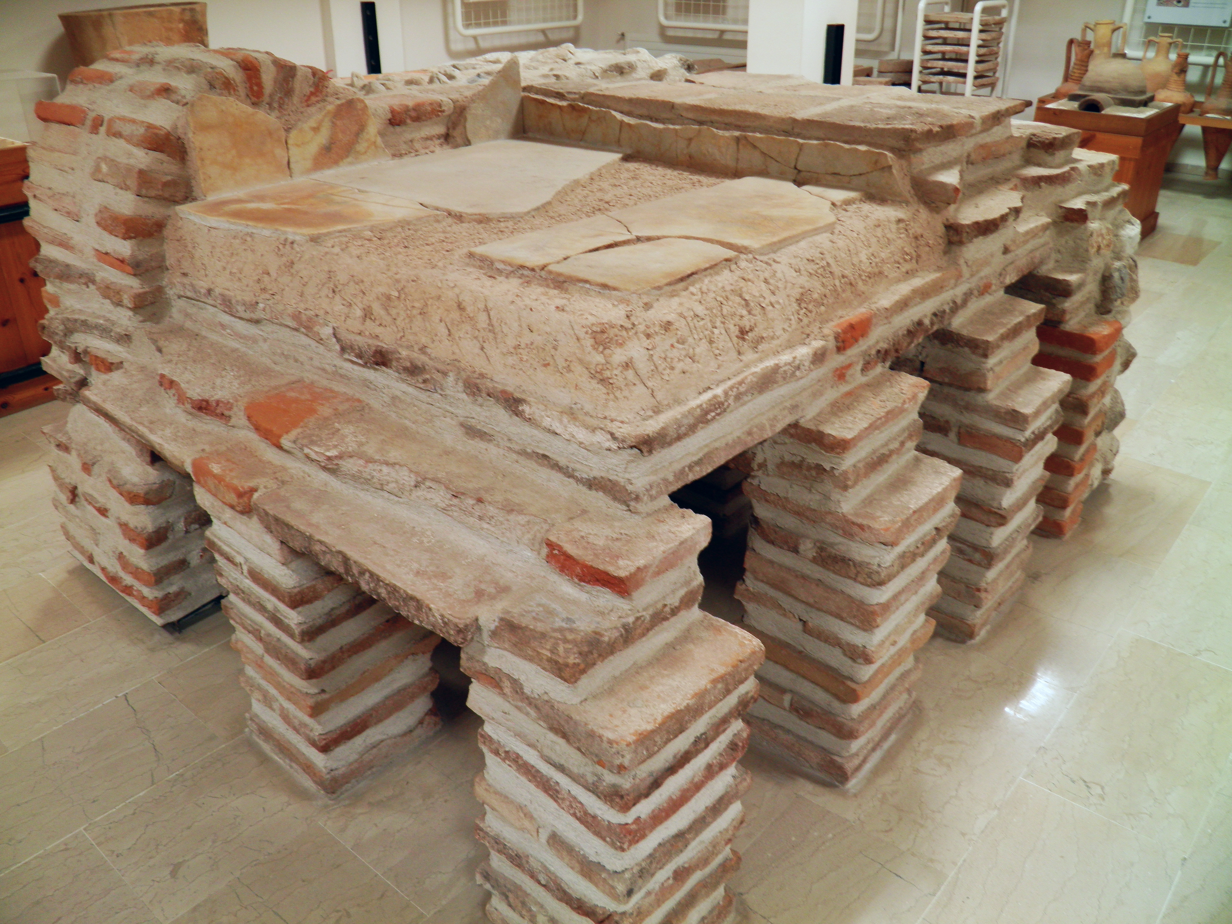 Hypocaust, Archaeological Museum, Dion